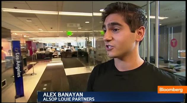 Alex Banayan on Bloomberg TV, 2012